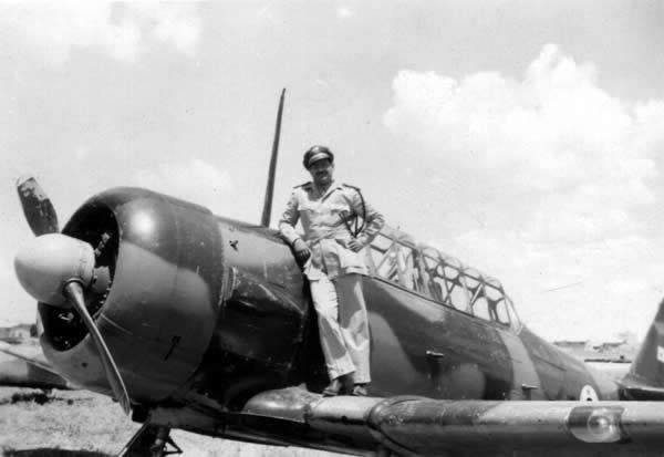 General Wadih al-Muqabari on a Harvard AT-6 SAF